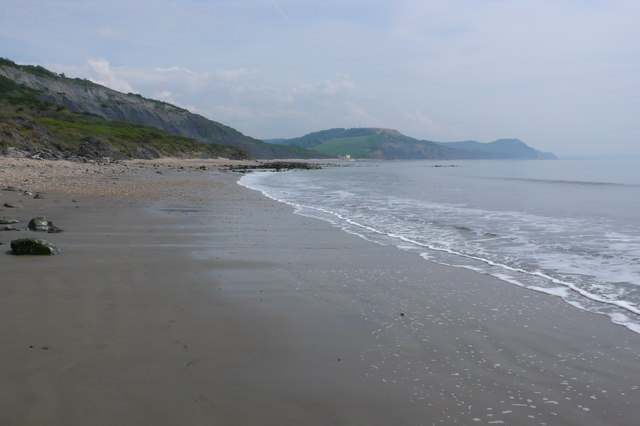 Beach below the Spittles Looking east towards Charmouth with Golden Cap prominent just beyond on a warm clam hazy spring afternoon just before low tide